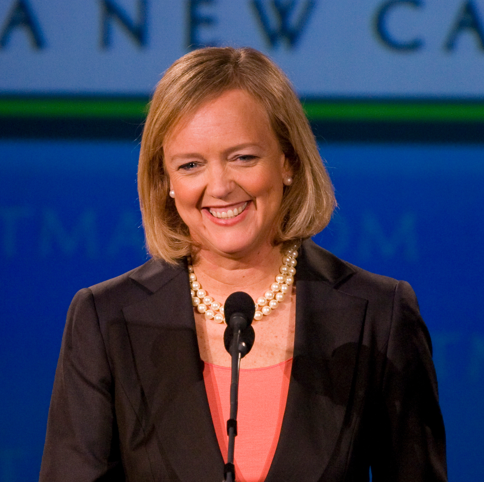 Meg Whitman